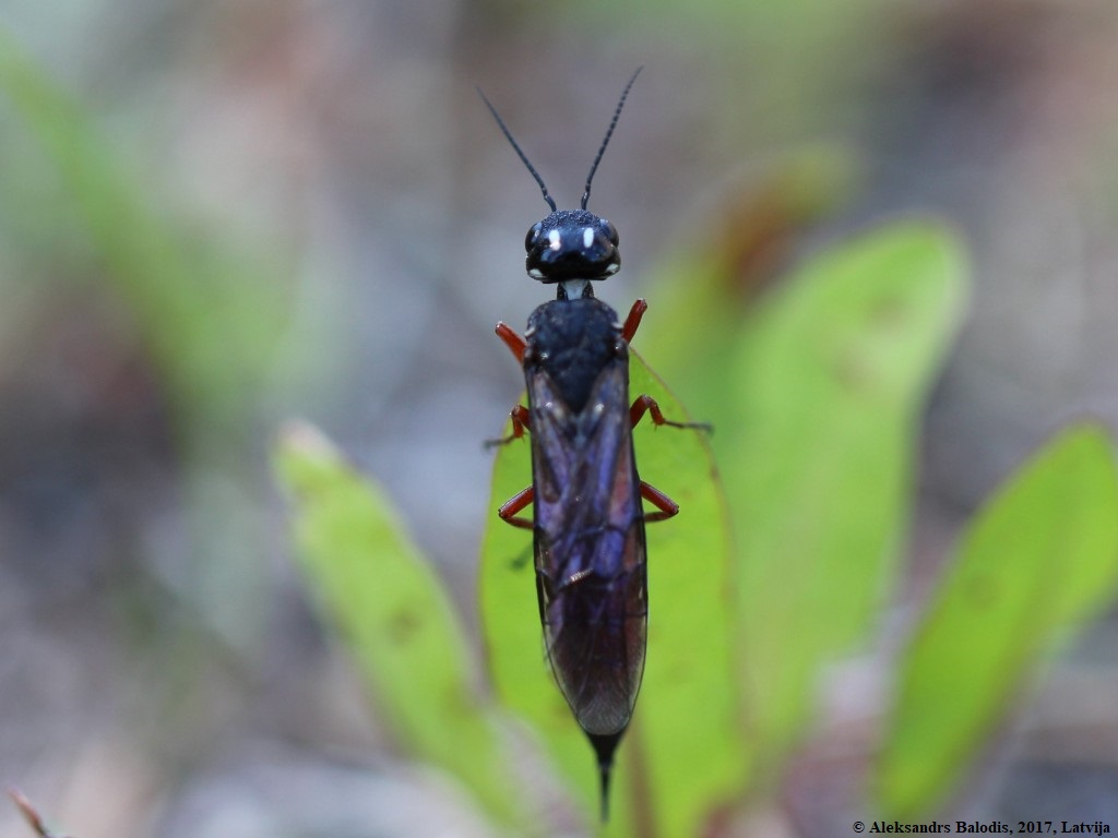 Xiphydria camelus